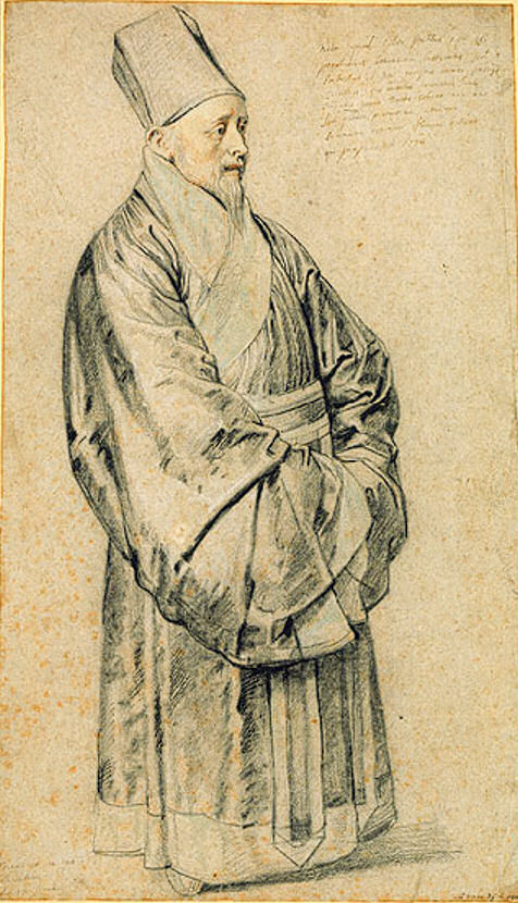 Peter Paul Rubens made this drawing of Nicolas Trigault in a Chinese costume when the Jesuit missionary to China was in Antwerp